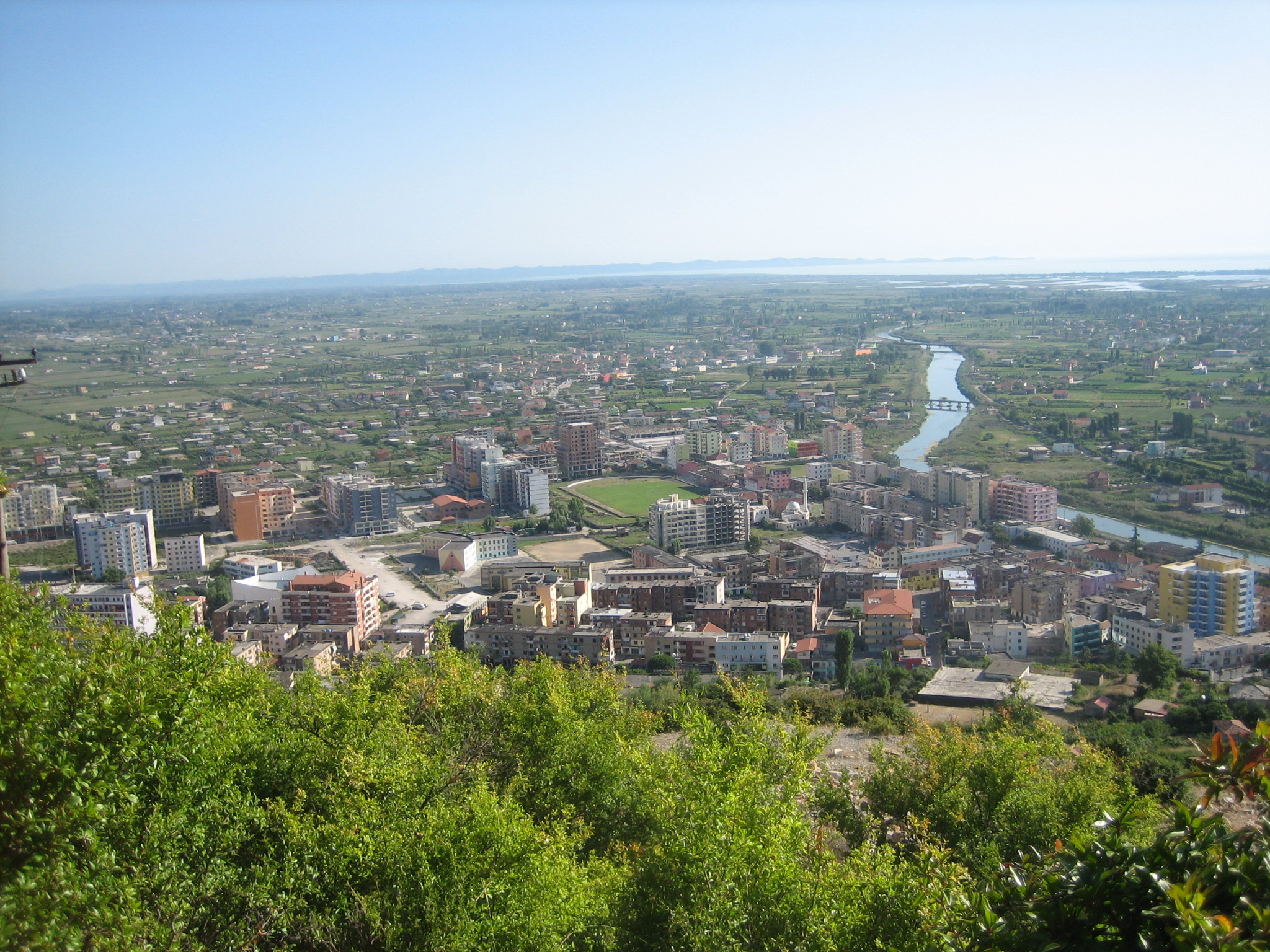 View of Lezhë from Lezhë Castle hill, Lezhë, Albania